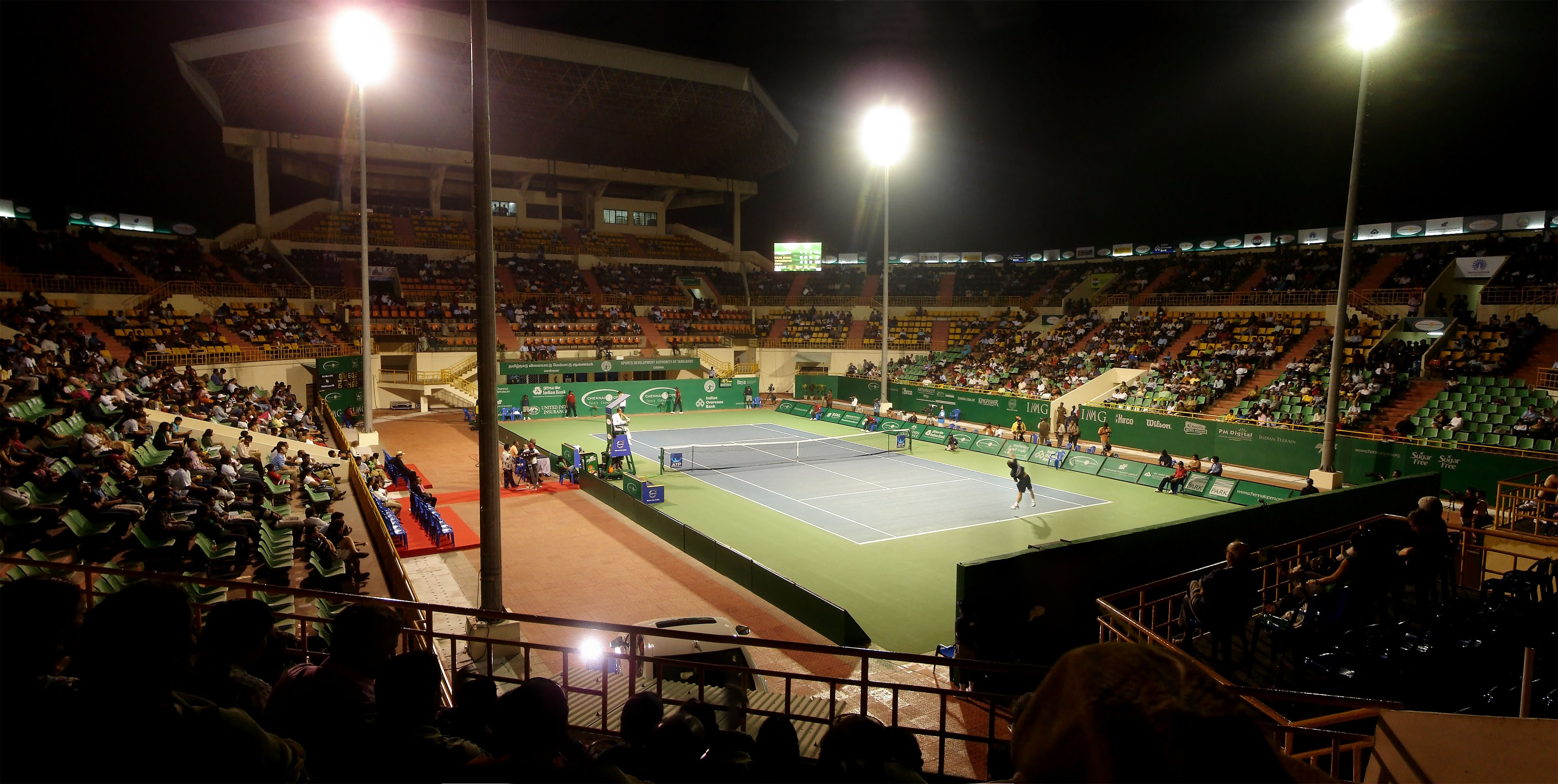 A match in progress during the 2009 Chennai Open at the Nungambakkam SDAT Stadium, Chennai.